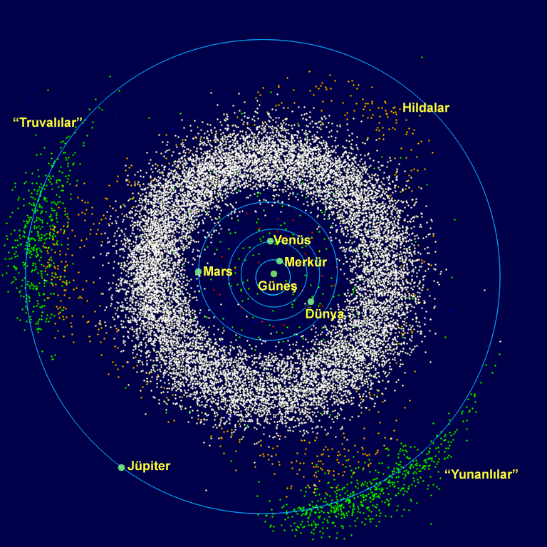 The inner Solar System, from the Sun to Jupiter. Also includes the Main Asteroid Belt (the white donut-shaped cloud), the Hildas (the orange "triangle" just inside the orbit of Jupiter) and the Jovian Trojan's (green). The group that leads Jupiter are called the "Greeks" and the trailing group are called the "Trojans" (Murray and Dermott, Solar System Dynamics, pg. 107). This image is based on data found in the JPL DE-405 ephemeris, and the Minor Planet Center database of asteroids (etc) published 2006 Jul 6. The image is looking down on the ecliptic plane as would have been seen on 2006 August 14. It was rendered by custom software written for Wikipedia.